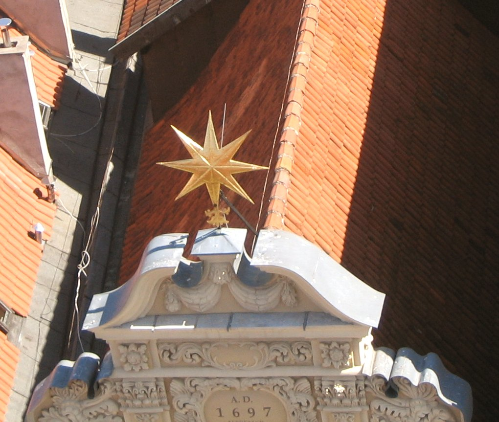 Kamienica Pod Gwiazdą, Toruń, photo taken from the tower of the City Hall